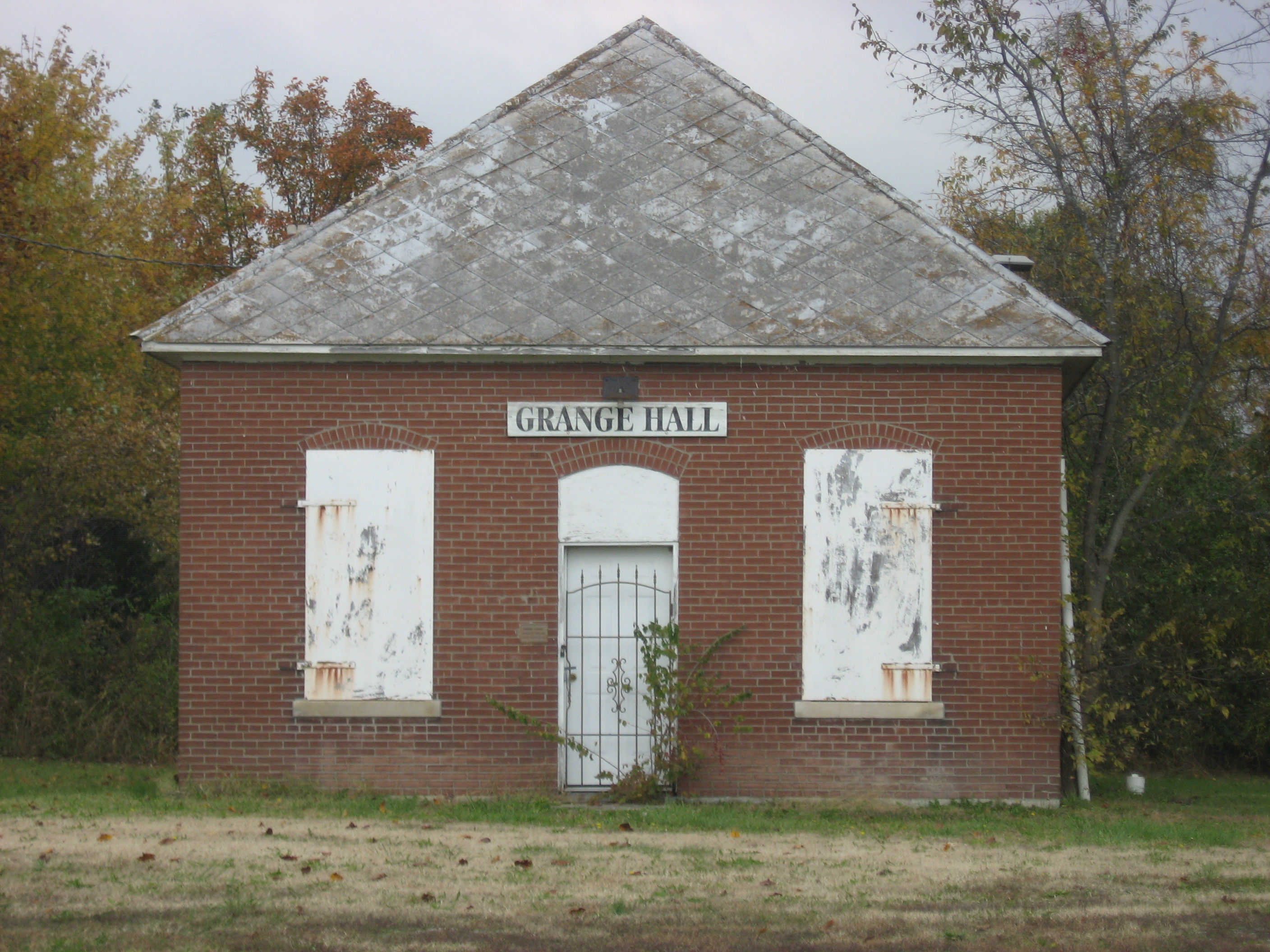 Front of the Murphysboro Grange Hall, located on the northeastern corner of the junction of Illinois Routes 13/127 with Grange Hall Road north of Murphysboro in Somerset Township, Jackson County, Illinois, United States. Built in 1912, it is listed on the National Register of Historic Places.